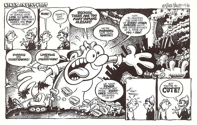 Propaganda comic strip of the Voluntary Human Extinction Movement, by Nina Paley.